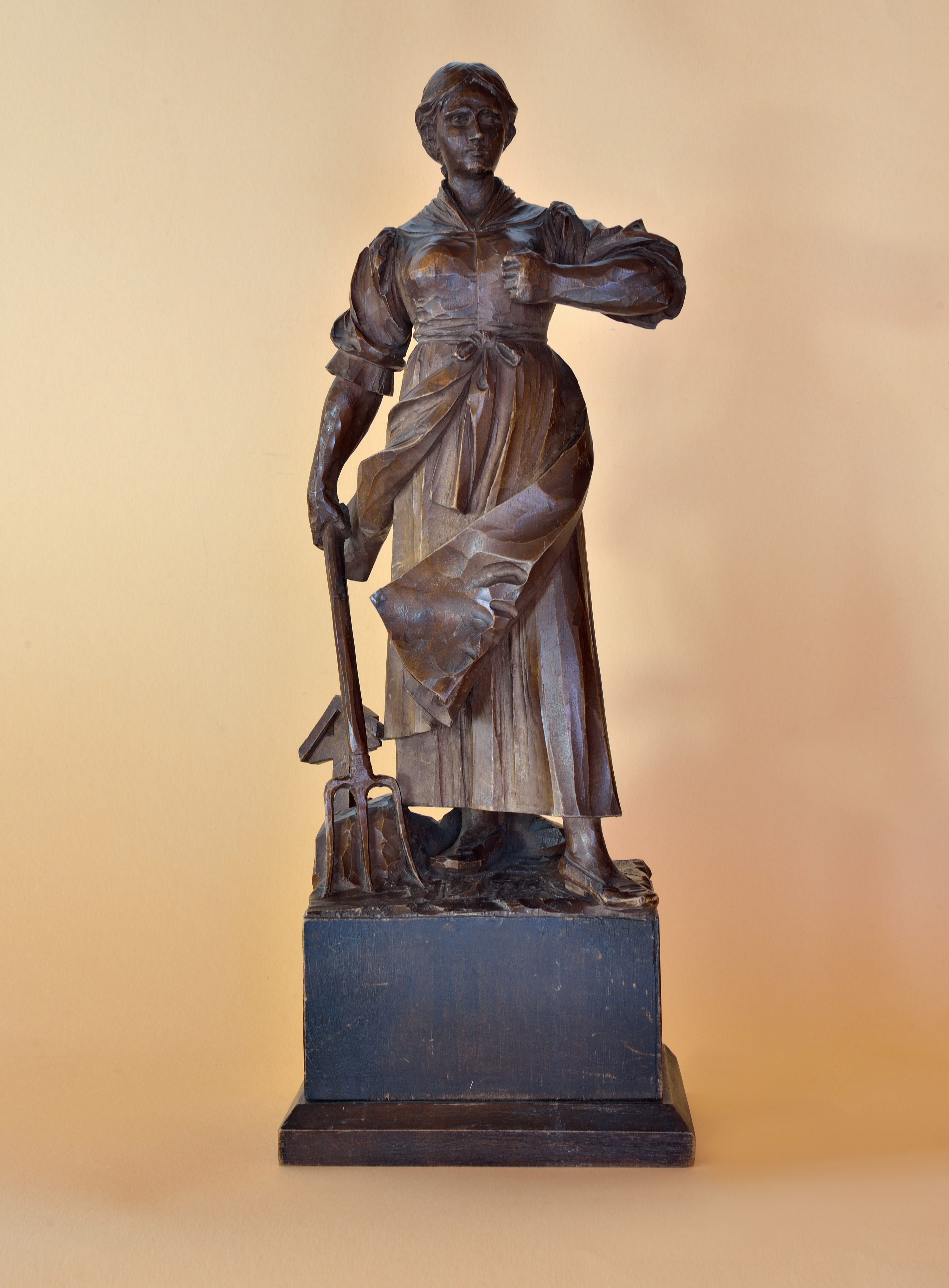 Katharina Lanz carved in swiss pine after the original monument in Livinallongo by sculptor Josef Parschalk. H 44.5 cm.